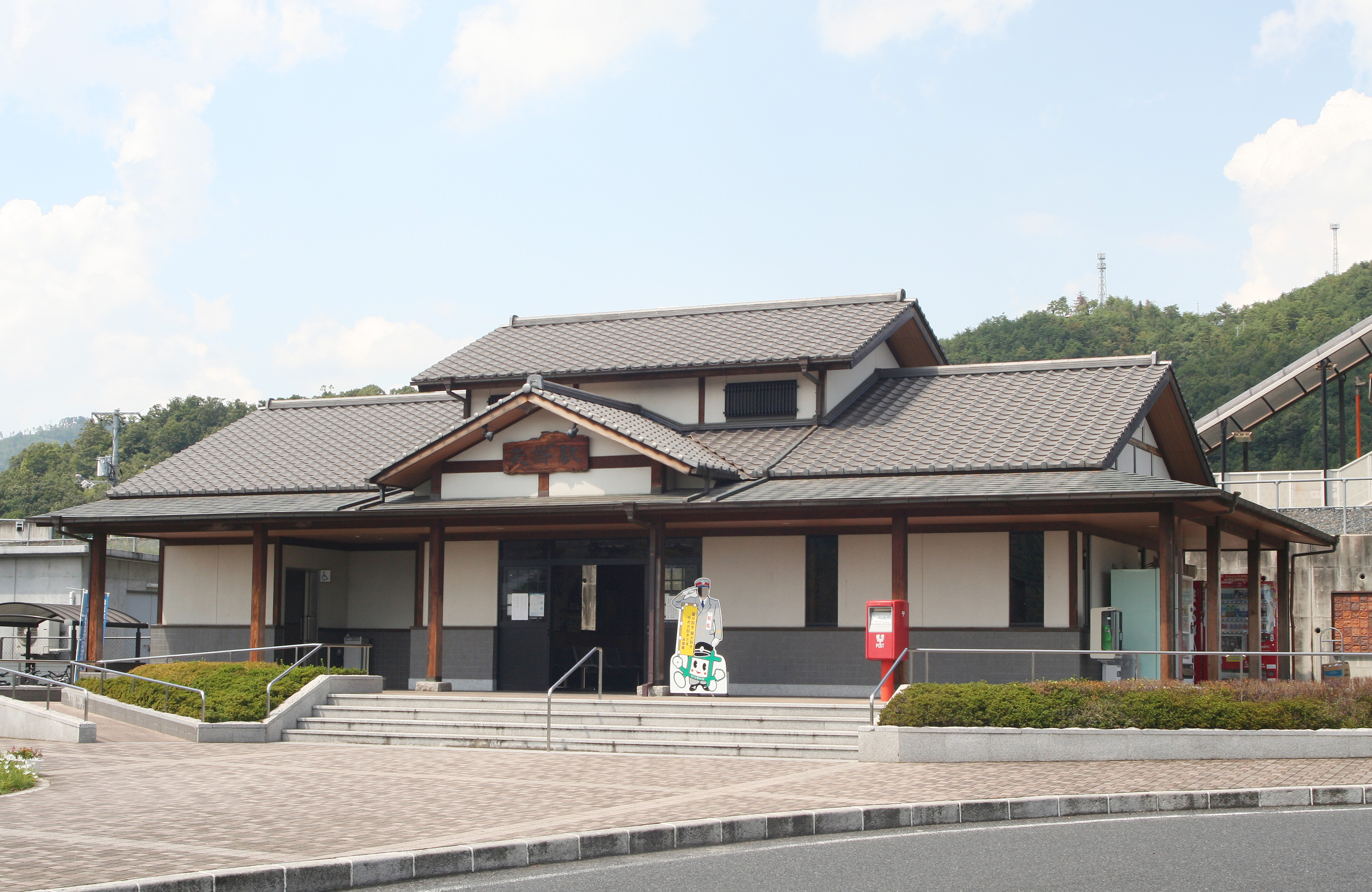 Ibara railway Yakage Station